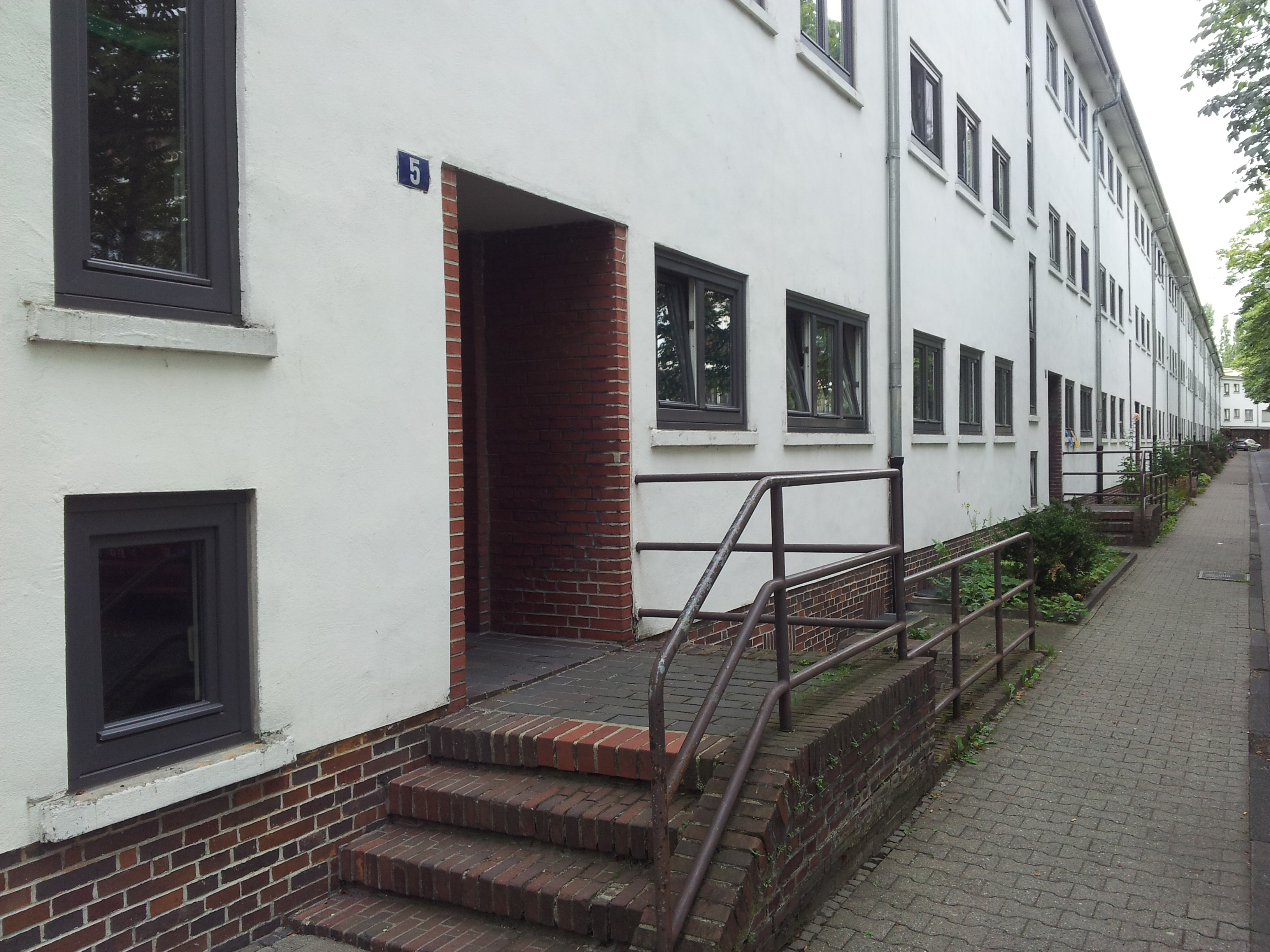 Heimatsiedlung, a housing estate of the "New Frankfurt"-project. Architect: Franz Roeckle, 1927